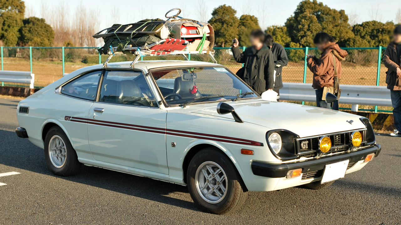 Toyota Sprinter 2 door Coupe 1600 Trueno ( TE47 )